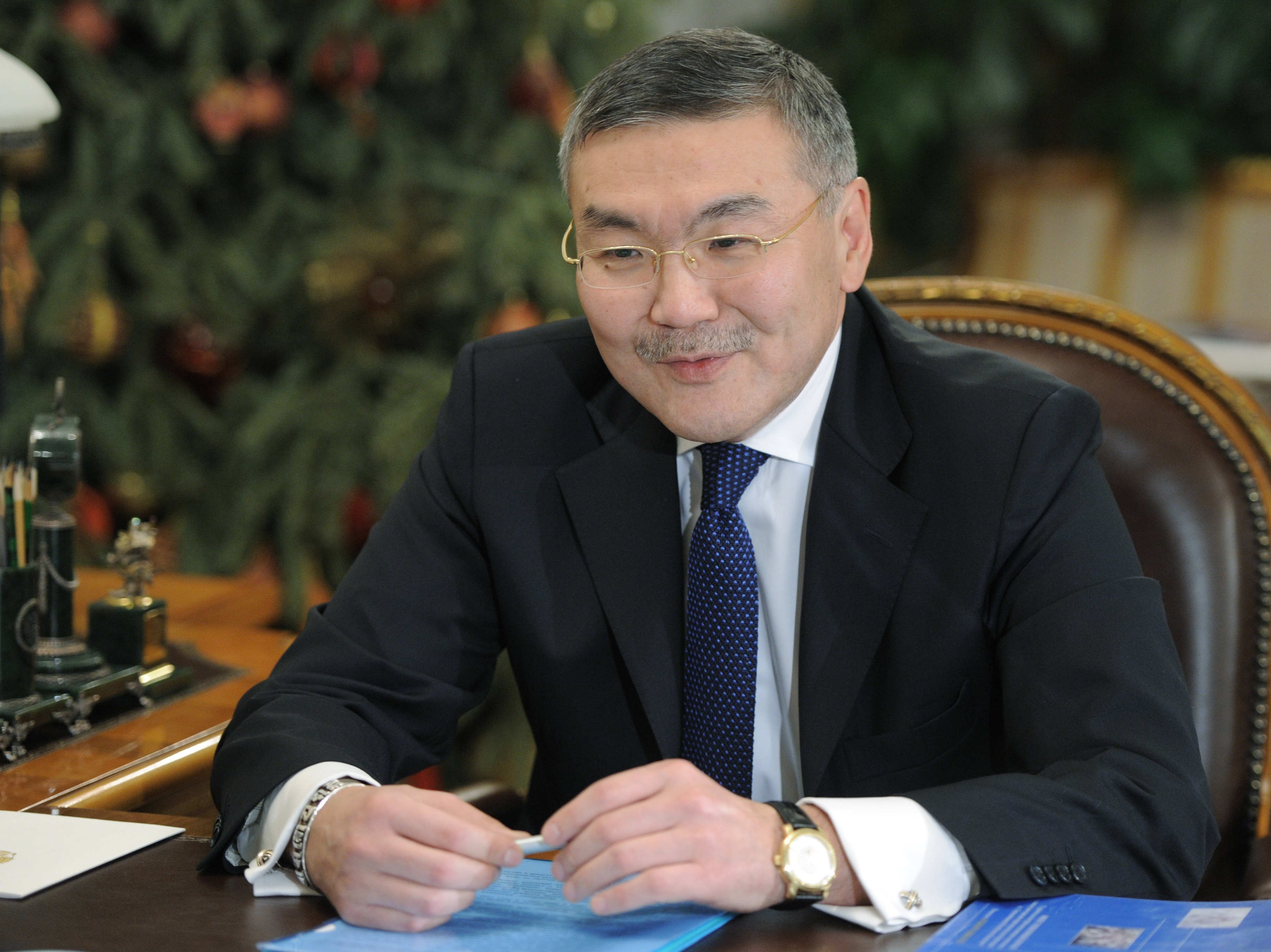 Head of the Republic of Kalmykia Alexei Orlov during his meeting with Prime Minister Vladimir Putin in Novo-Ogaryovo, Moscow Oblast.